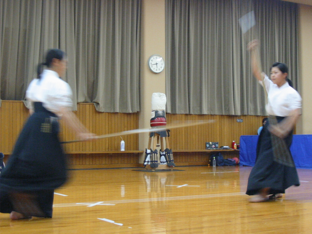 Students at Shoin practicing naginata forms